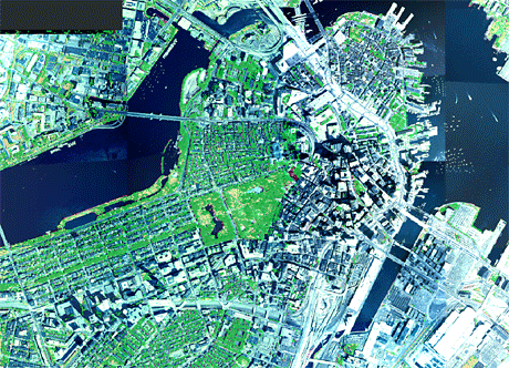 USDA Forest Service. Urban Tree Canopy Assessment Mapping Sustainability.